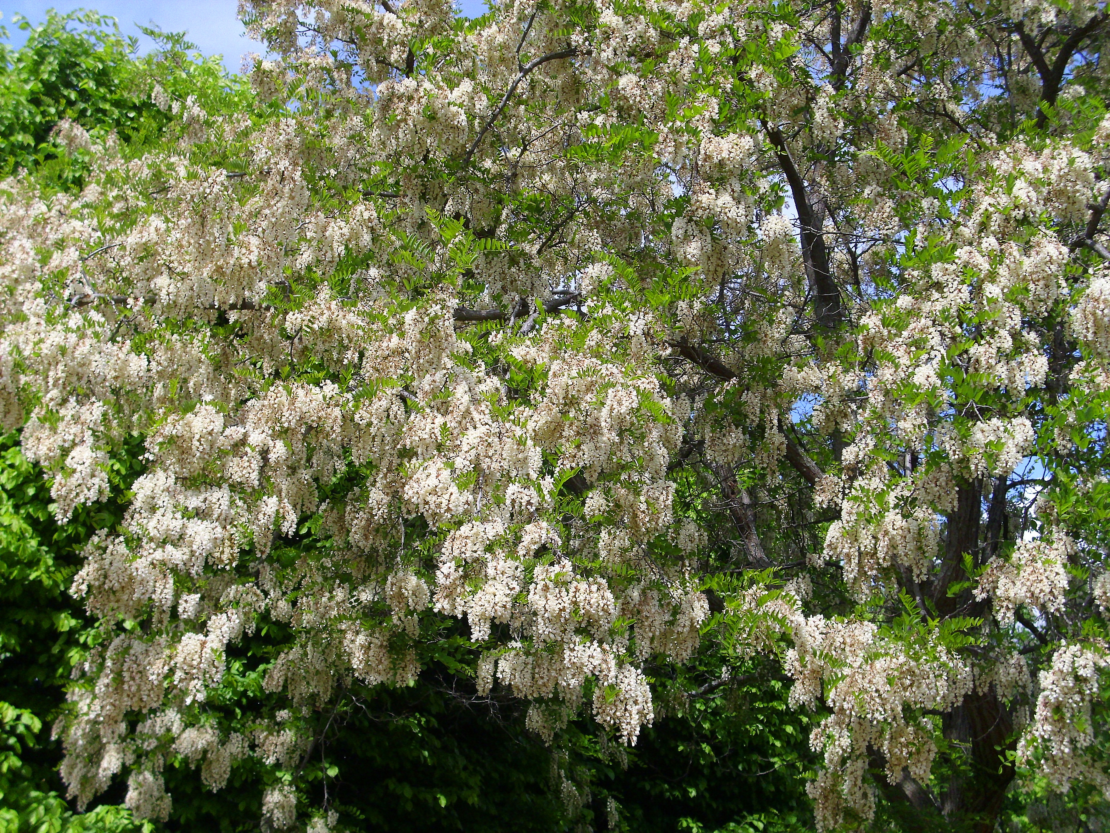 Robinia pseudoacacia flowers Dehesa Boyal de Puertollano, Spain